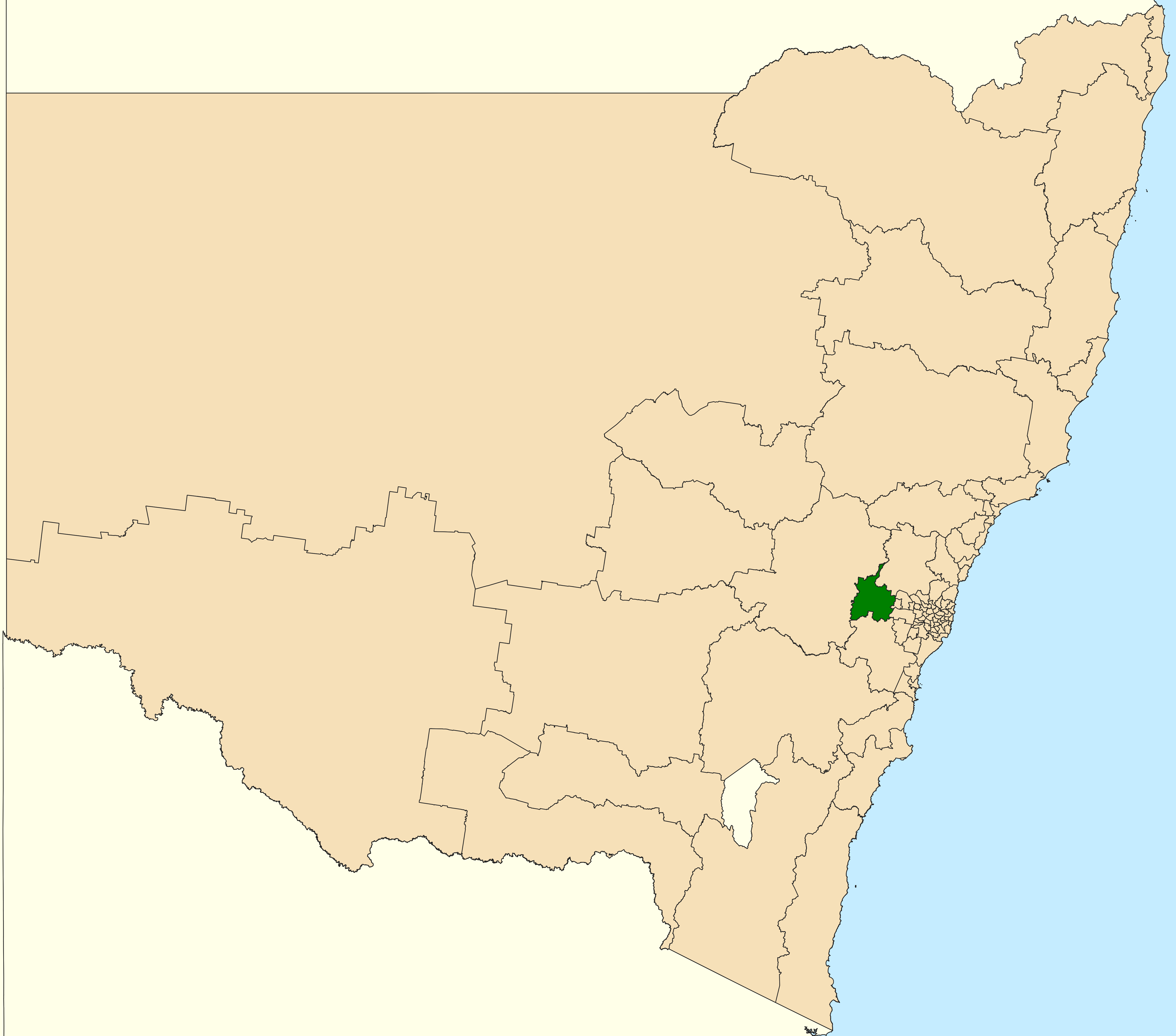 Location of the state electoral district of Blue Mountains (dark green) in New South Wales as of the 2019 New South Wales state election. Incorporates or developed using Administrative Boundaries ©PSMA Australia Limited licensed by the Commonwealth of Australia under Creative Commons Attribution 4.0 International licence (CC BY 4.0).